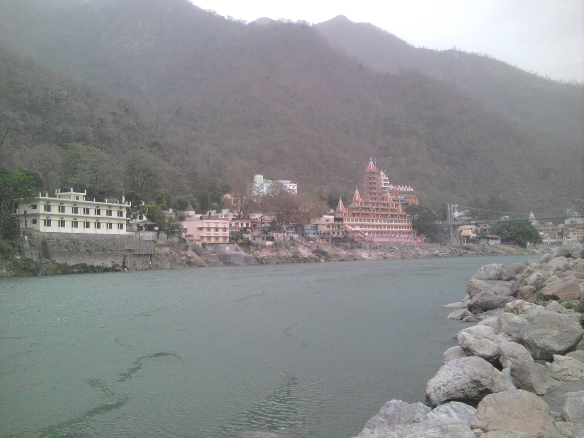 view of rishikesh from beach